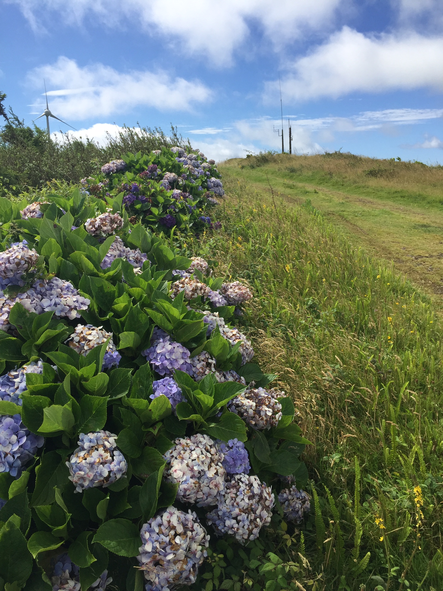 Typical roadside hedgerow of hydrangeas on Terceira, the Azores.